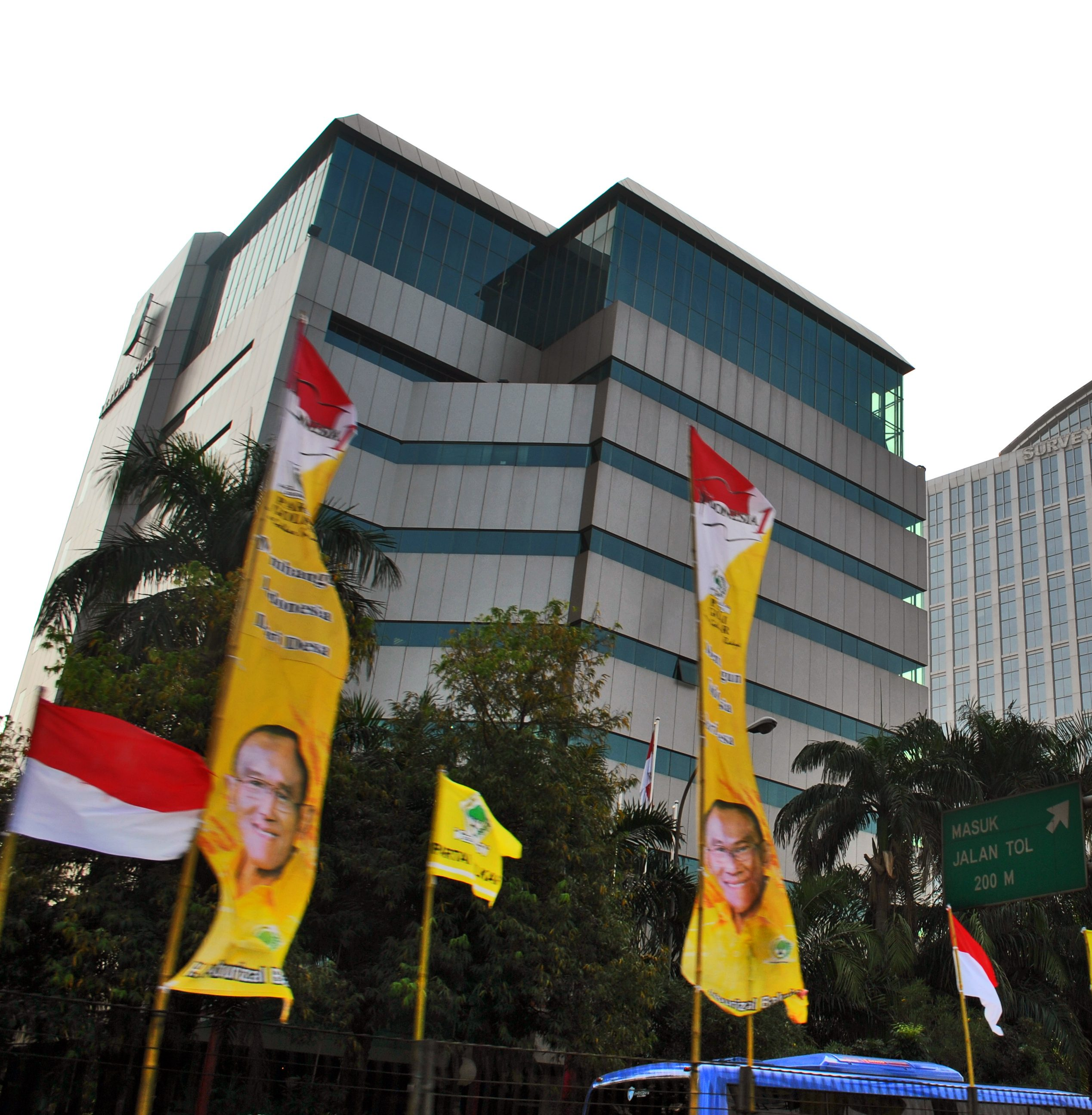 The head office of state-owned steel company Krakatau Steel.